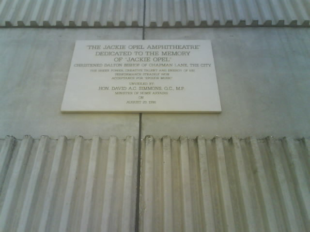 Plaque of commemoration for the Jackie Opel Amphitheatre at the General Post Office in Cheapside-Bridgetown, Barbados.